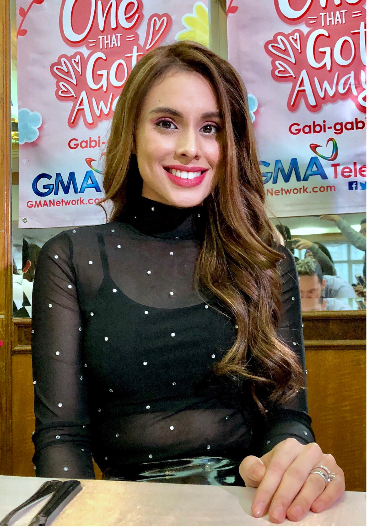 Filipino-American Max Collins (actress)